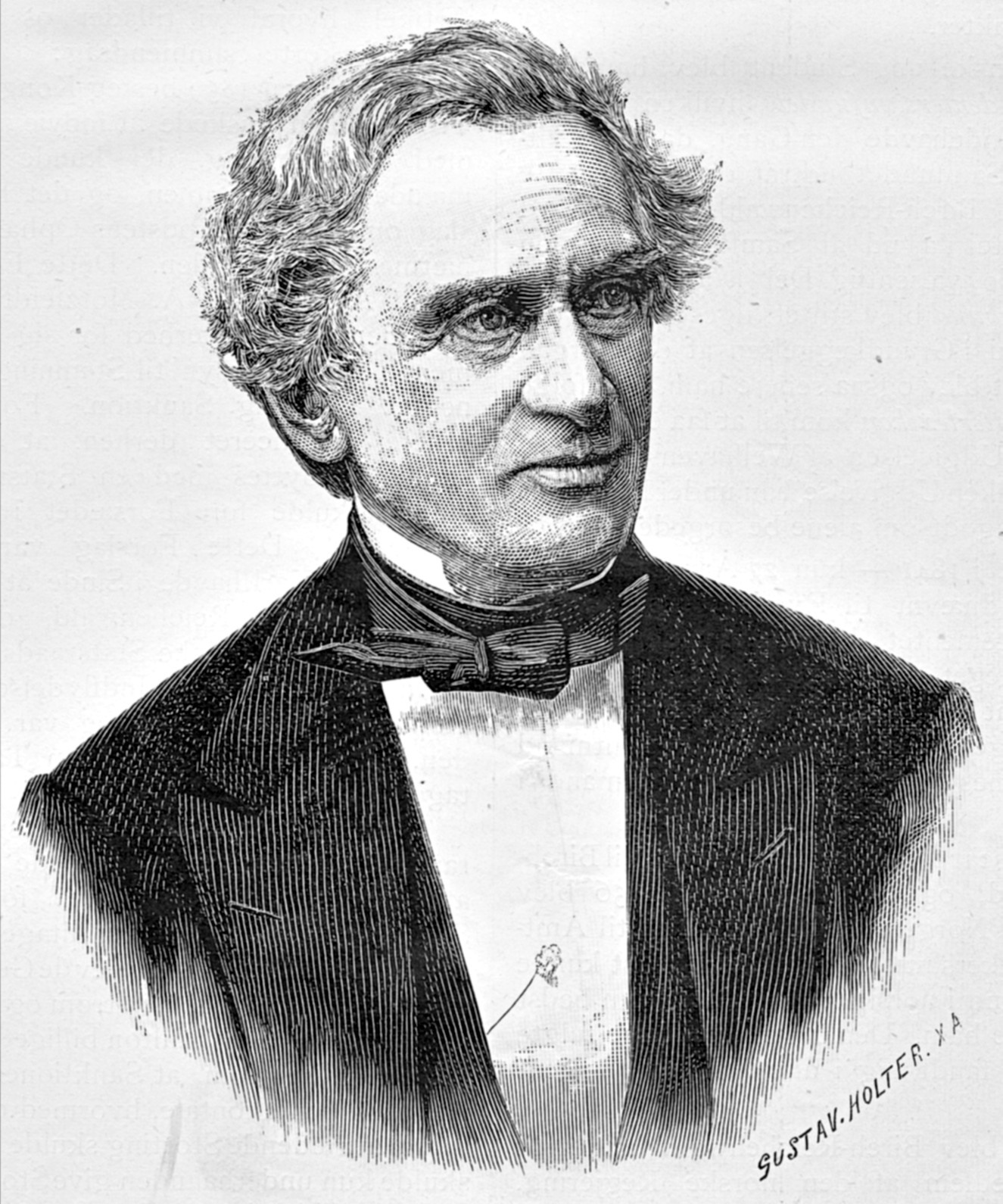 Christian Birch-Reichenwald (1814 – 1891), Norwegian civil servant, politician, government minister. Engraving by Gustav Holter (born 16. October 1859 - died 13. June 1940) published 1891 in the journal Skilling-Magazin.